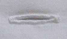 Straight buttonhole